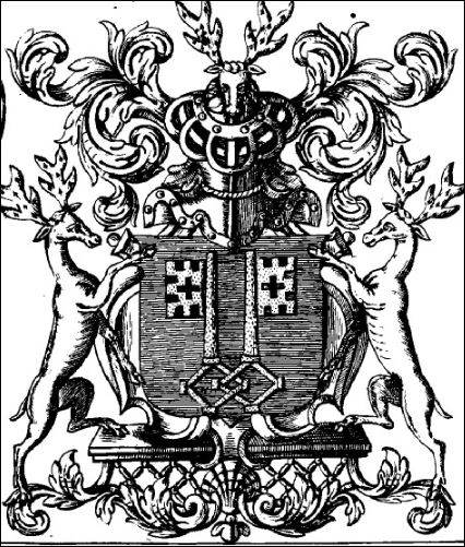 COA de Clugny